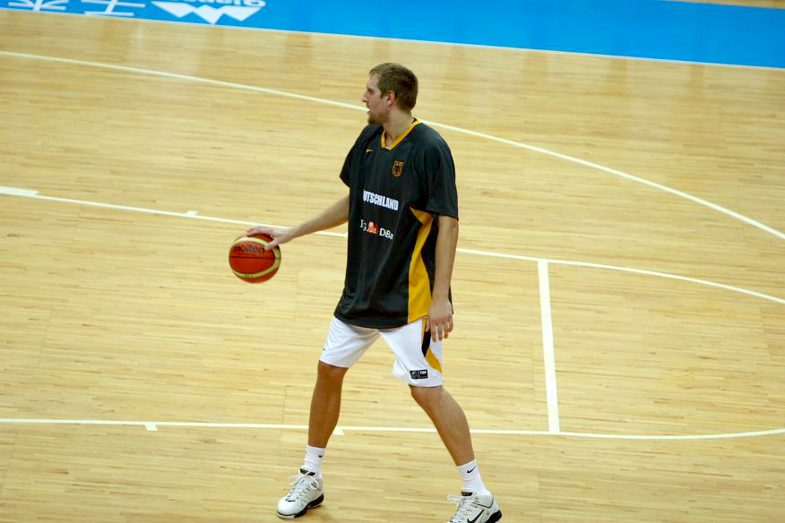 Dirk Nowitzki in Nanjing.